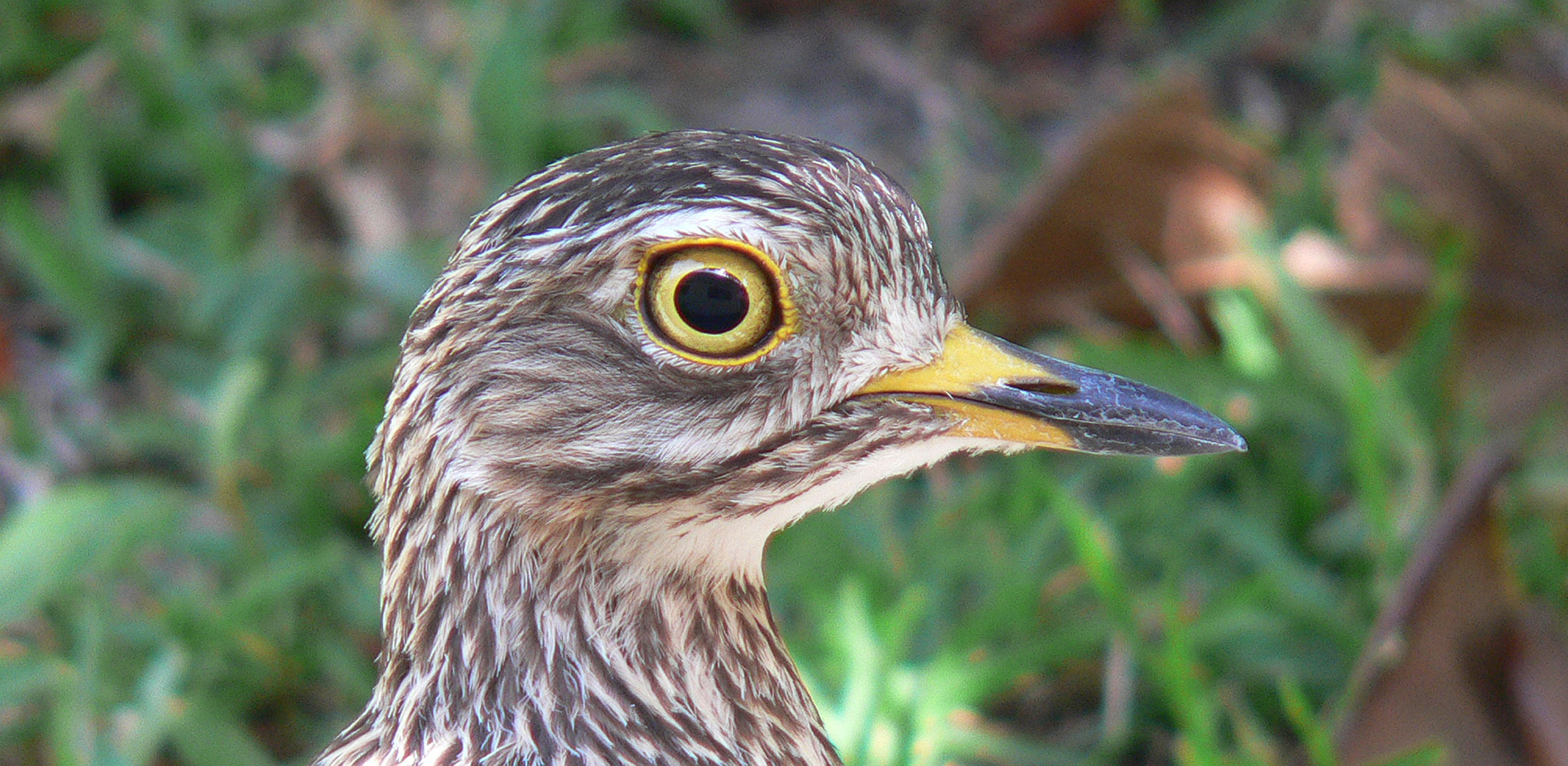 Head of a Dikkop (thick head) nesting at Constantia, South Africa